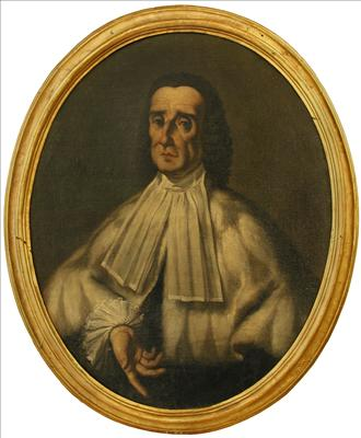 Jacopo Bartolomeo Beccari (25 July 1682 - 18 January 1766 ), an Italian chemist, one of the leading scientists in Bologna in the first half of the eighteenth century. He is mainly known as the discoverer of the gluten in wheat flour.